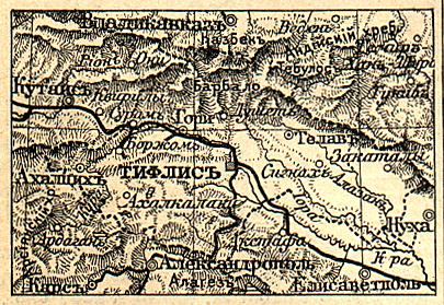 Map of Tiflis Governorate